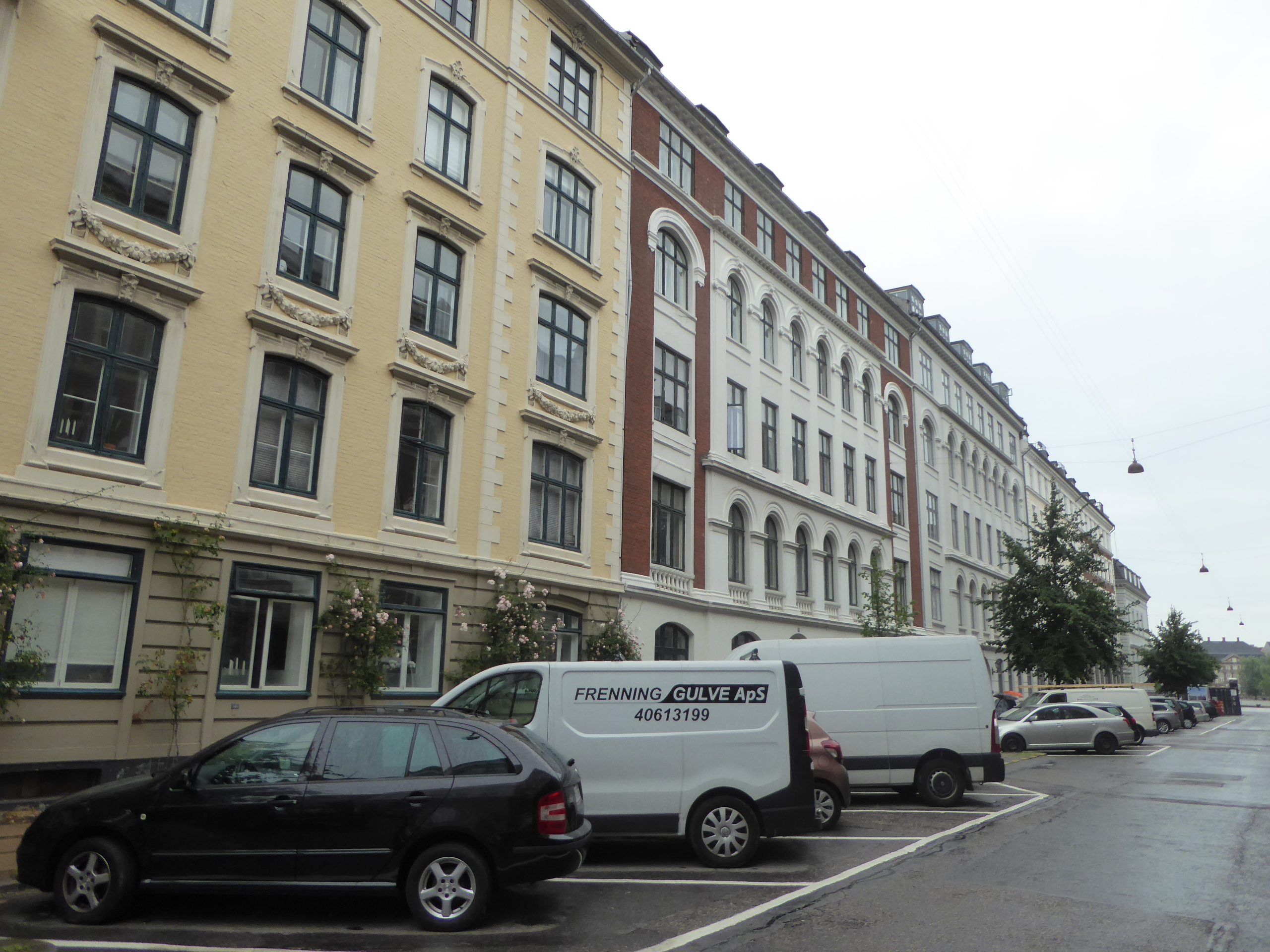 The street Tordenskjoldsgade in Indre By in Copenhagen.